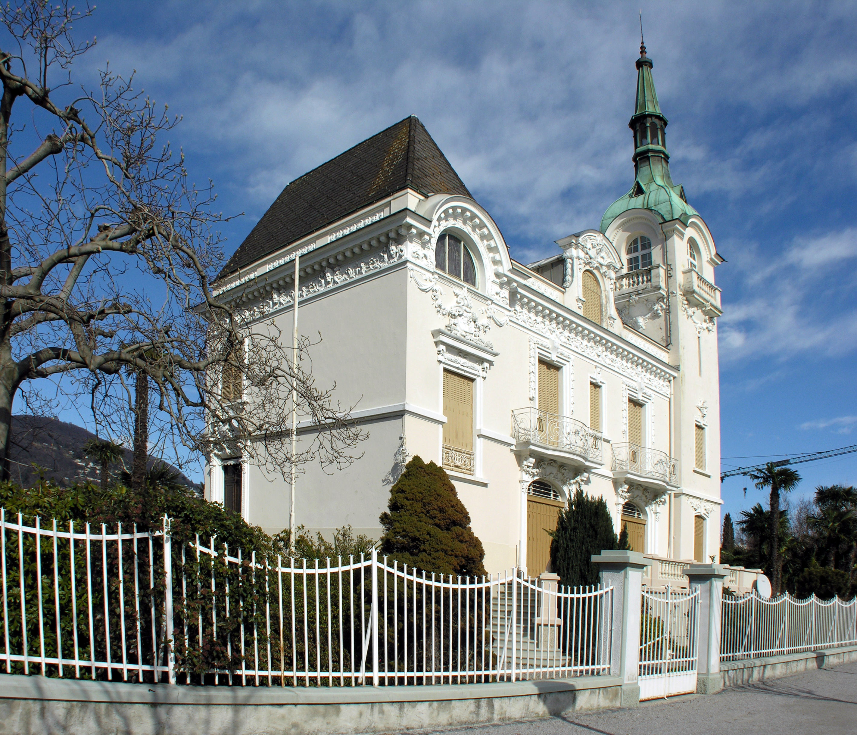 Caslano, Tessin, Switzerland - Villa Ferretti